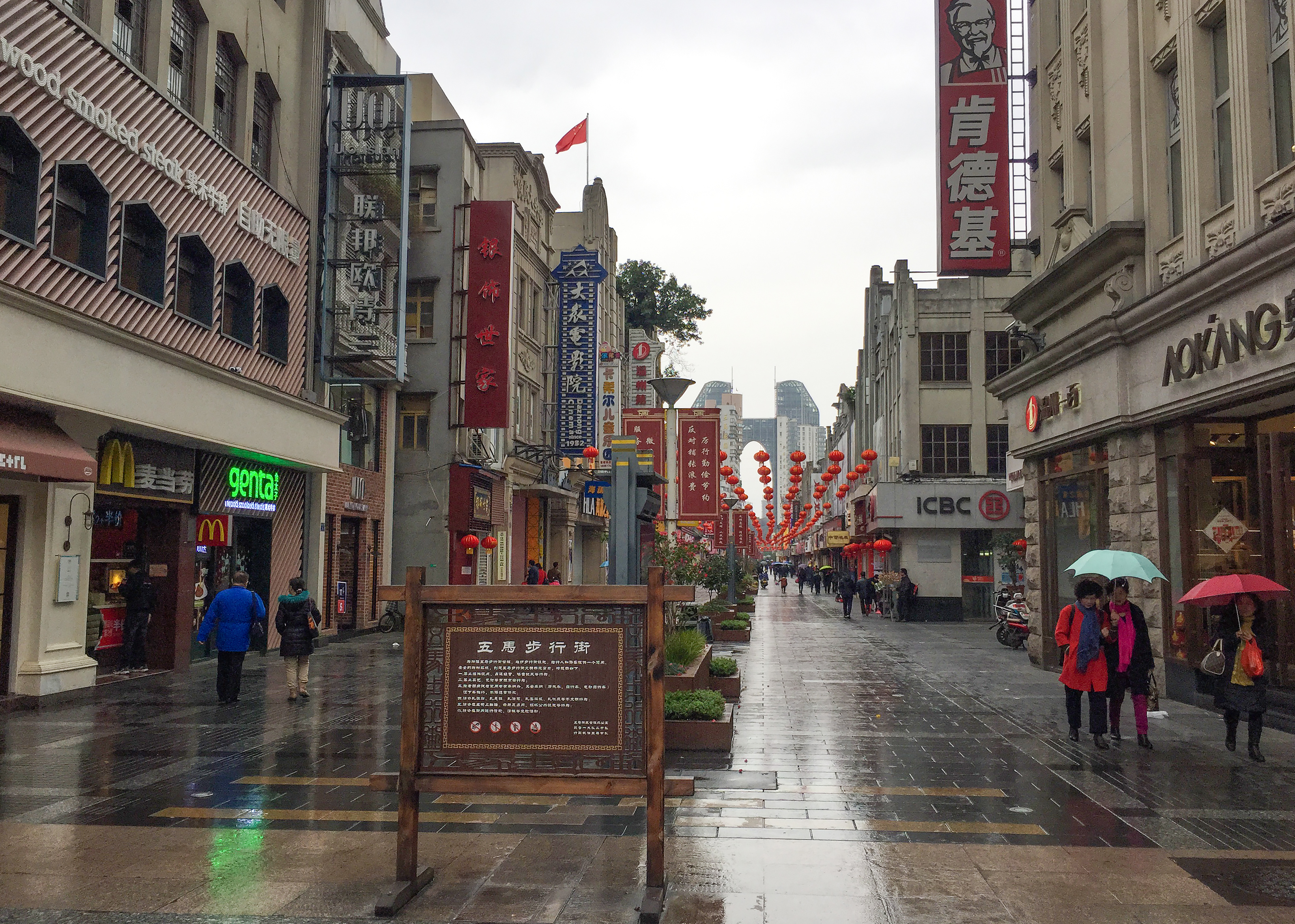 During the Chinese New Year, most shops are out of service.